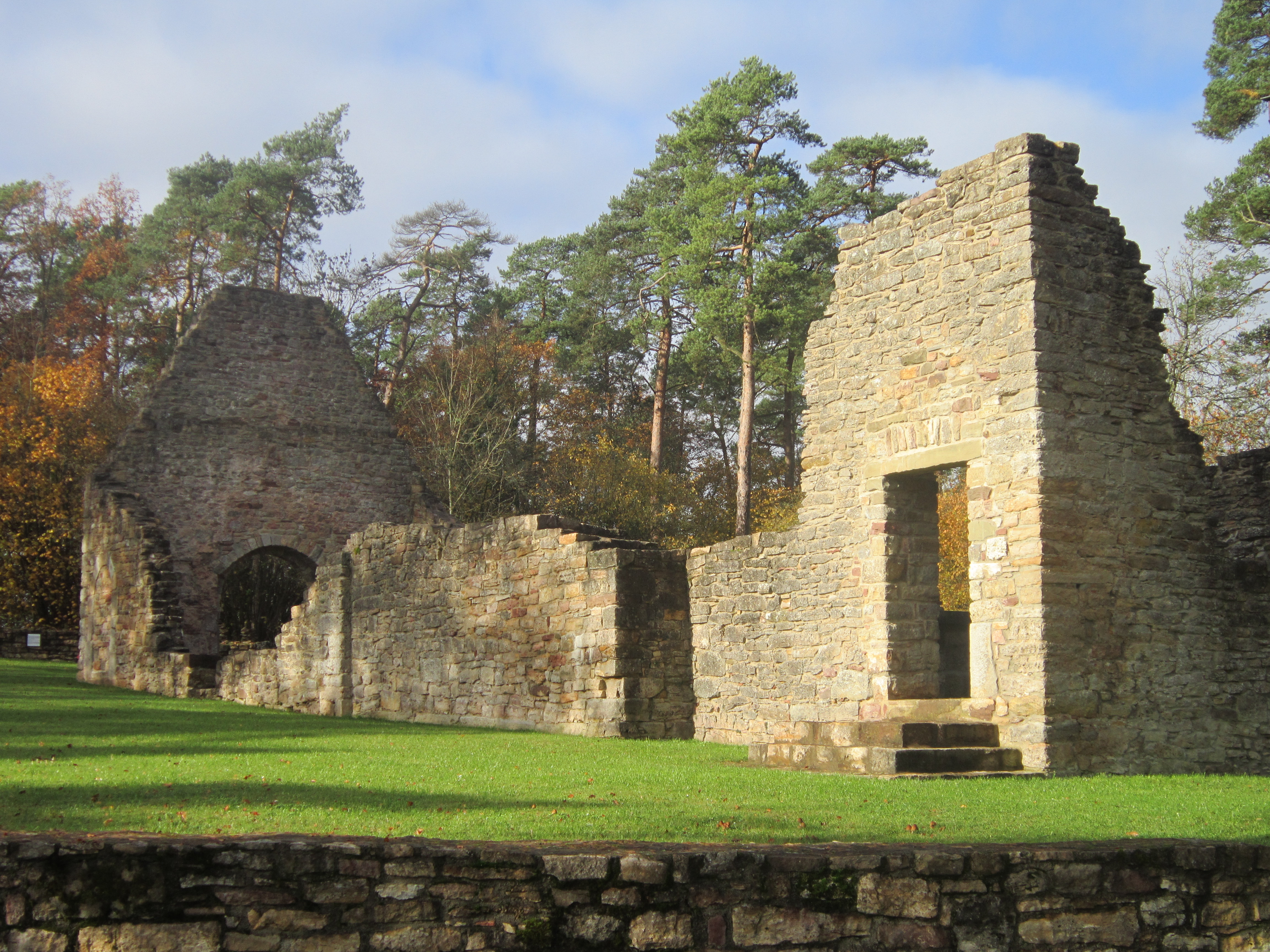 The "Michelskapelle", a monastery ruin in Burghausen, a quarter of the German town of Münnerstadt in Lower Franconia (Bavaria).